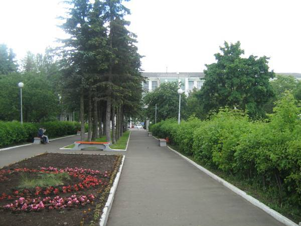 Victory Park, Tver, Russia